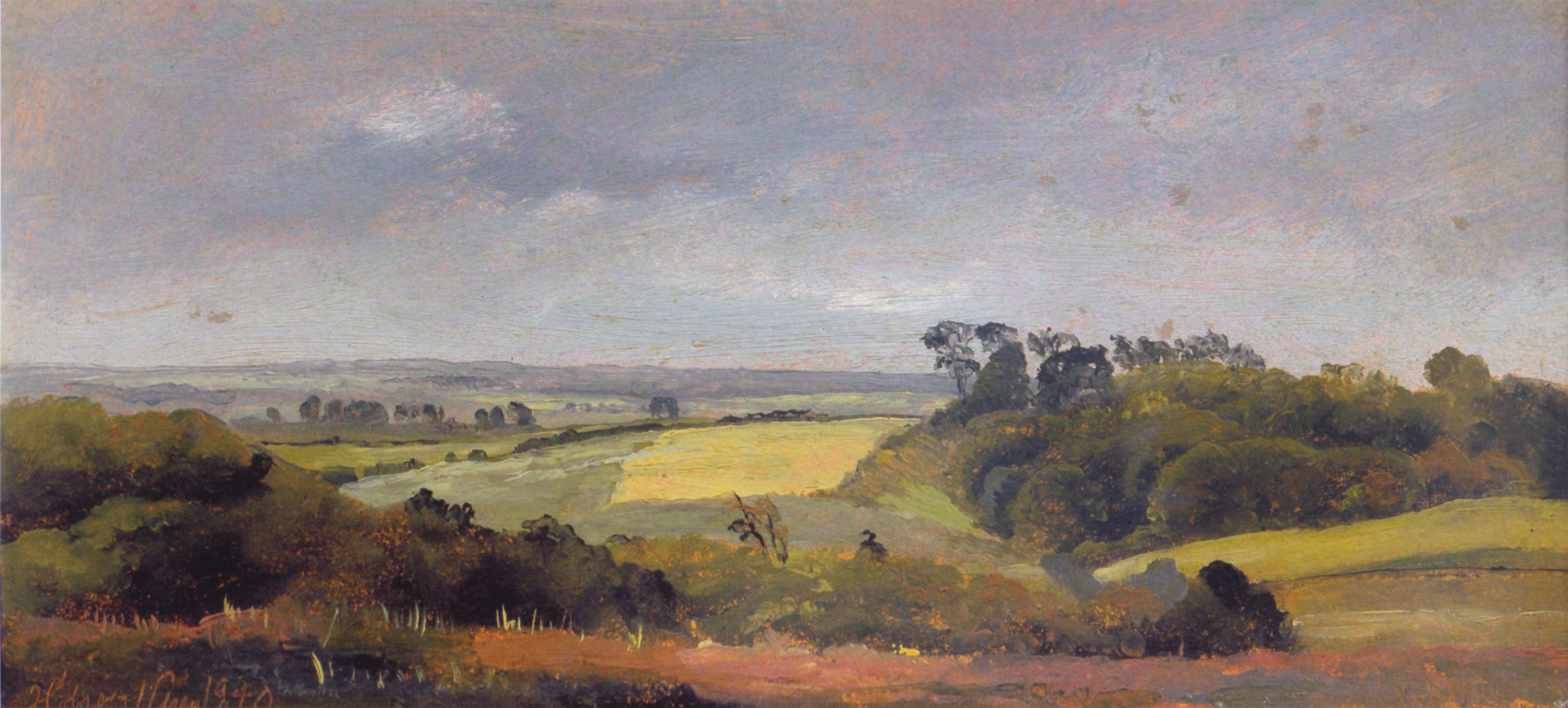 This painting was done in Northern Zealand in 1840. Source: Marianne Saabye (ed.), Dansk Kunst i 100 år, page 84.